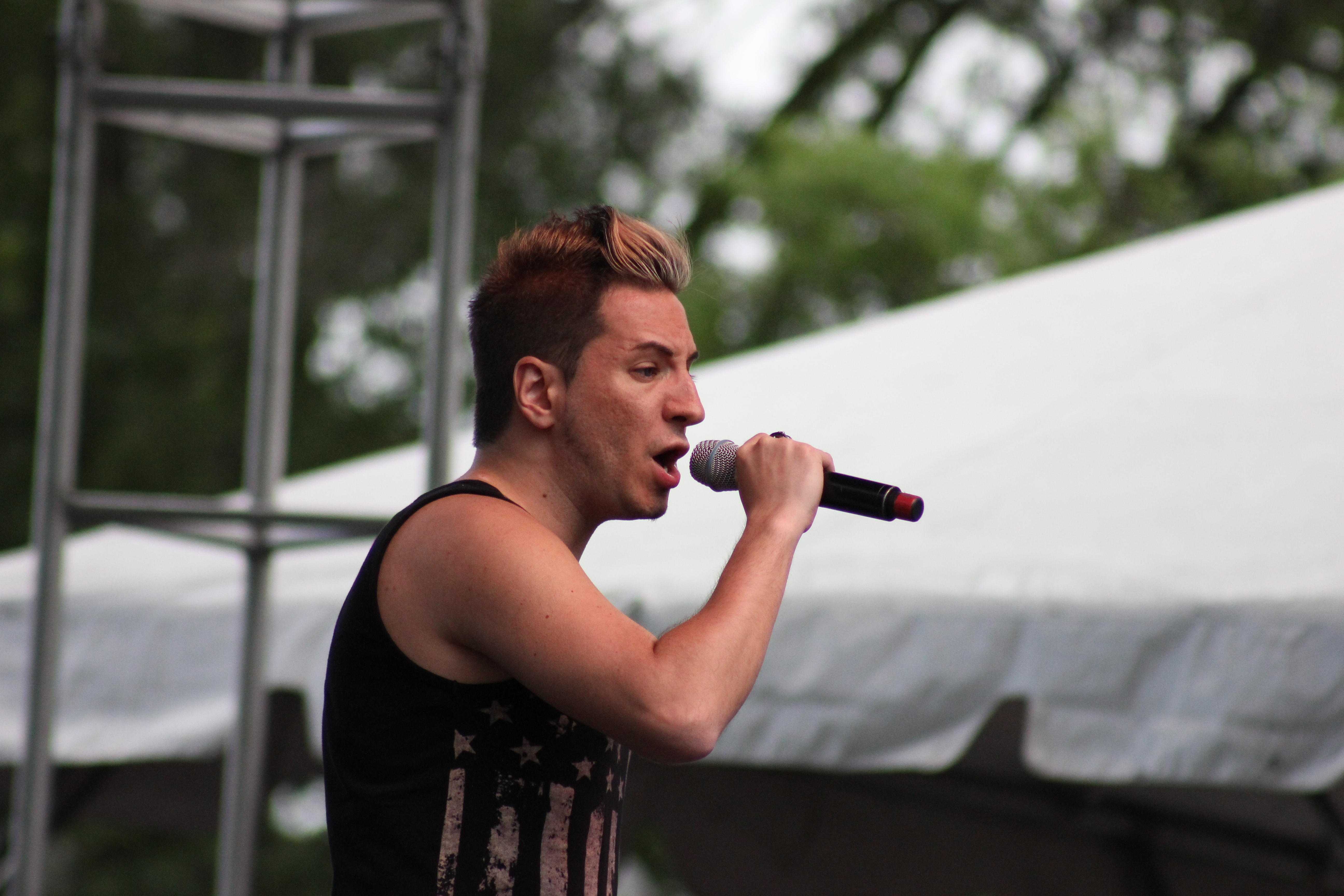 Barta at Gay Pride in Washington D.C. in 2013